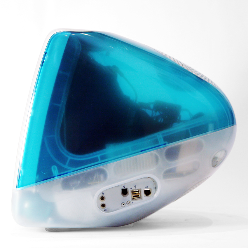 Side view of a G3 equipped Apple iMac (slot loading CD) coloured 'blueberry'. Year of production: 2000